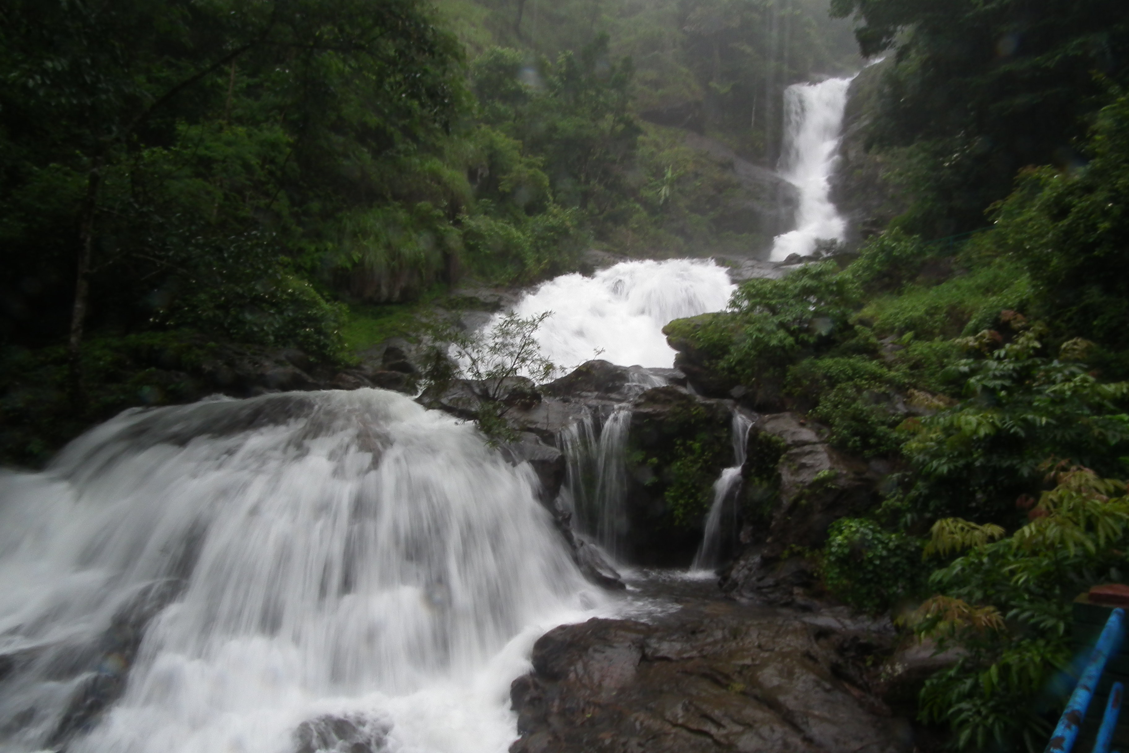 The Irupu Falls (also Iruppu Falls) are located in the Brahmagiri Range in the Kodagu district of Karnataka, India, bordering the Wayanad district of Kerala.